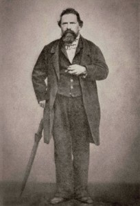 Johann Peter Haseney (1812-1869)